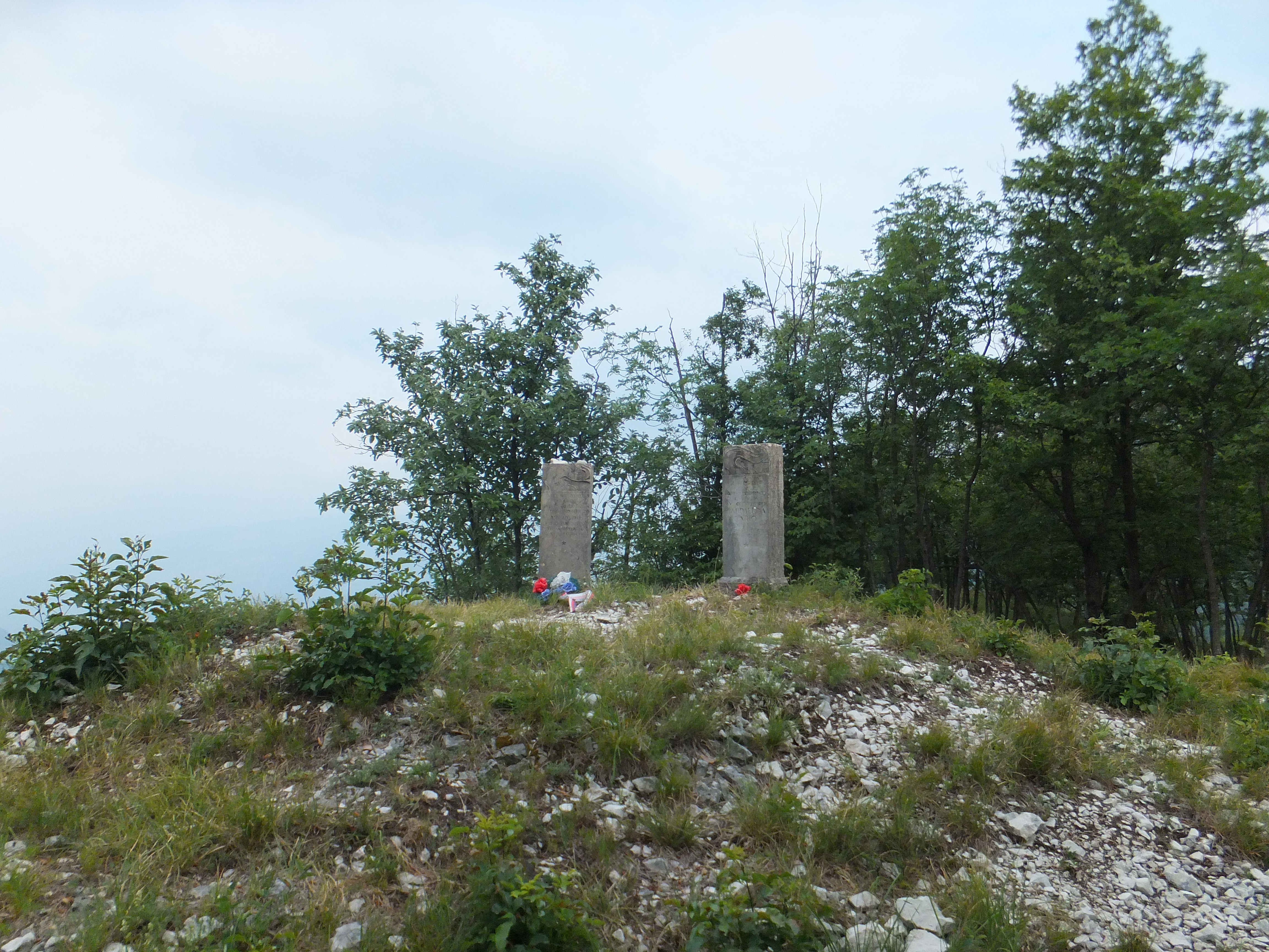 Monuments on the top of Doss Alto di Nago